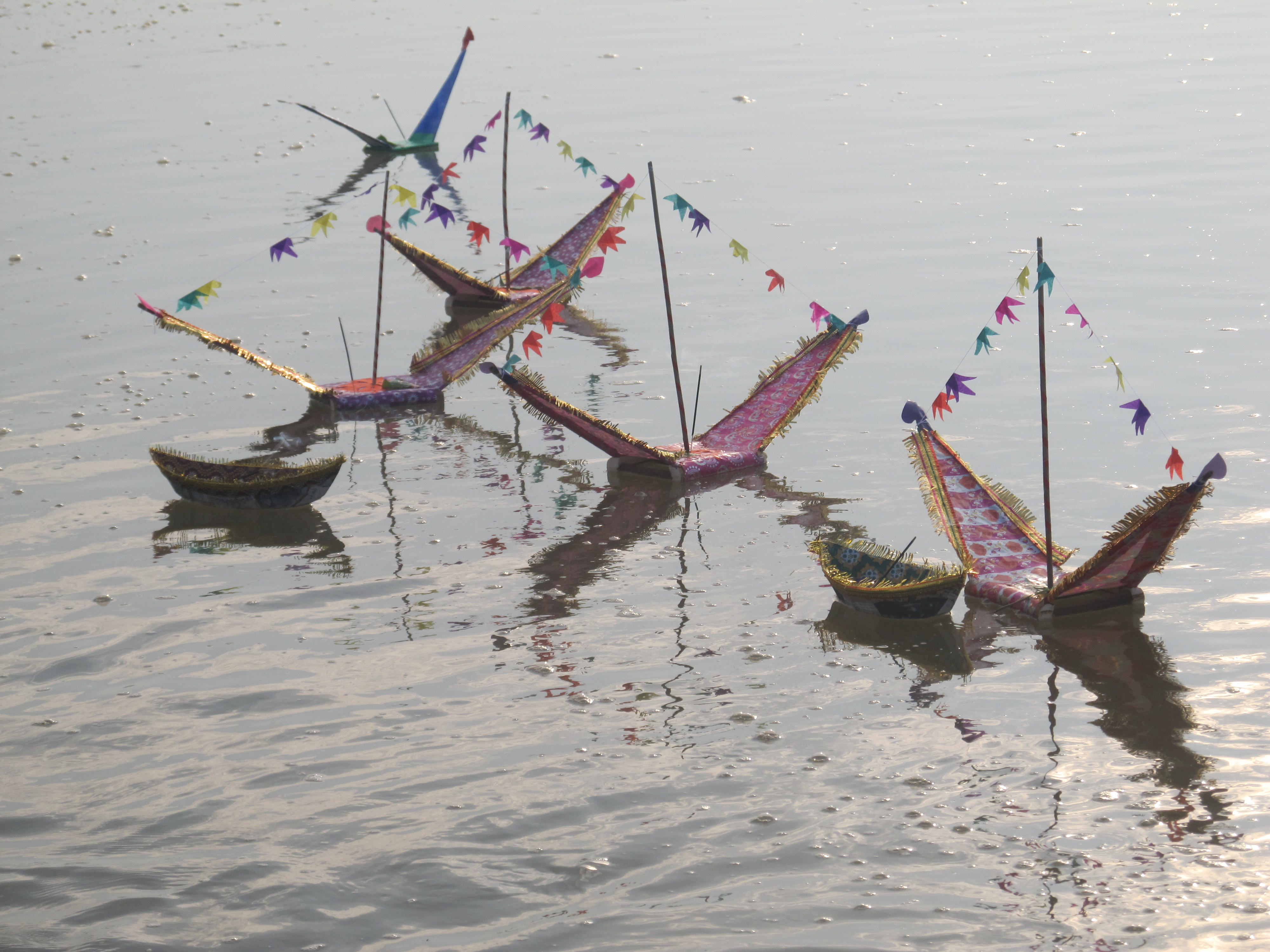 boat in river Brahmani River. occasion of Kartika Purnima we observe Boita Bandana Utshab.